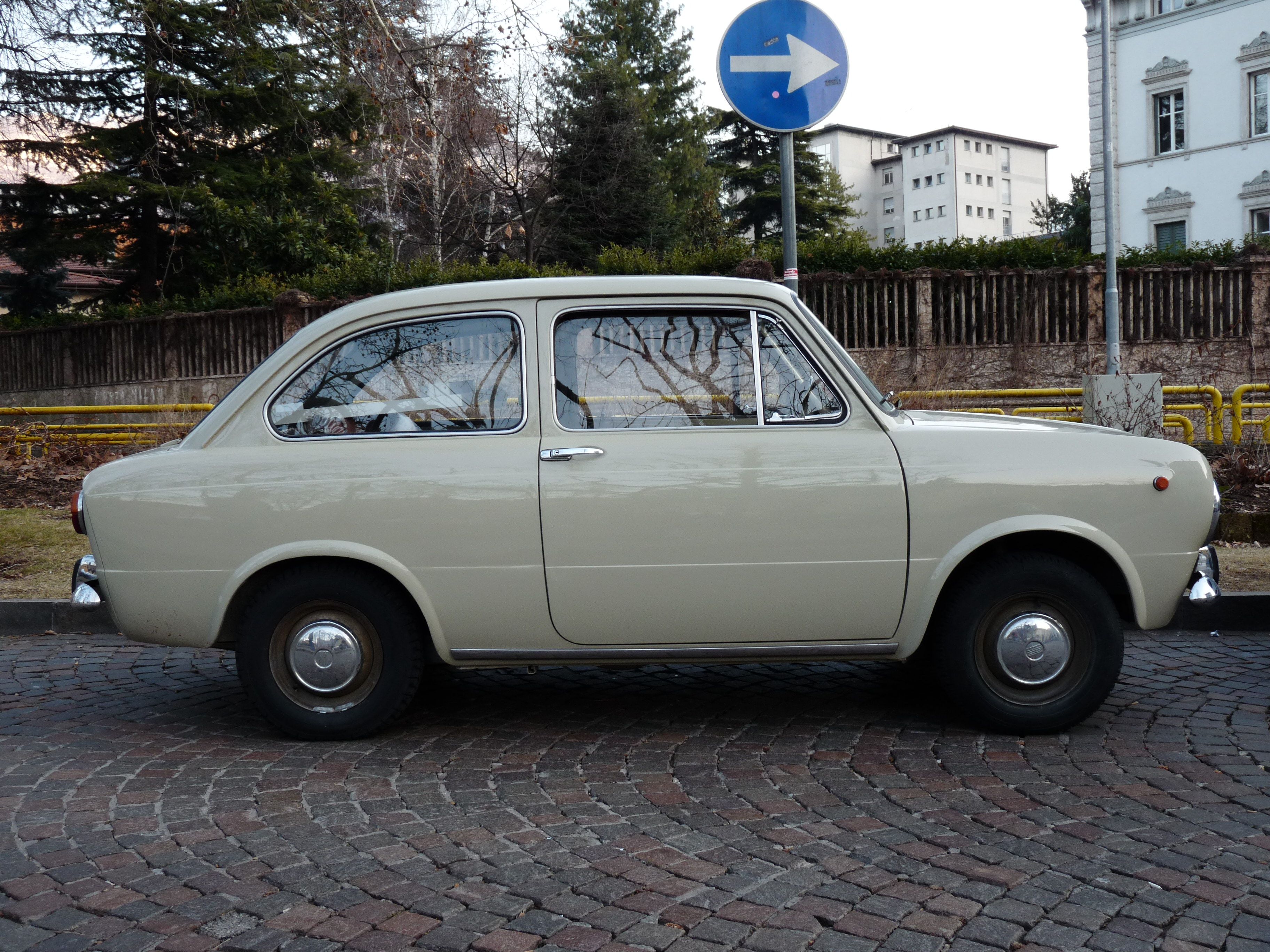 Trento (Italy): a Fiat 850 (right side)